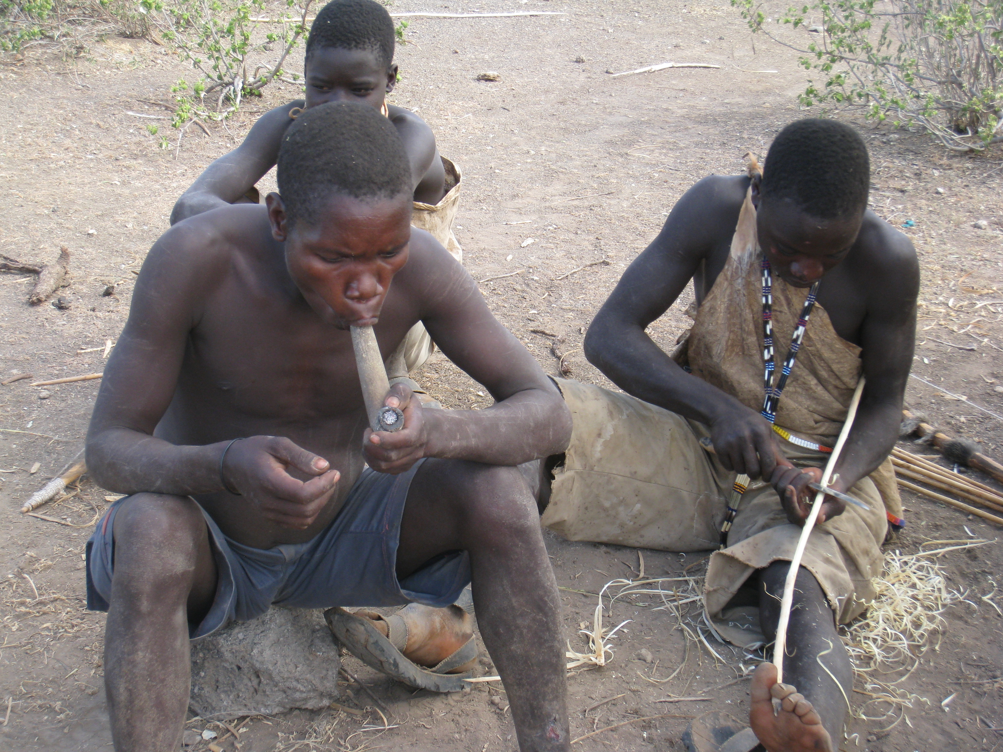 Hadzabe Tribe - Smoking Marijuana, Tanzania